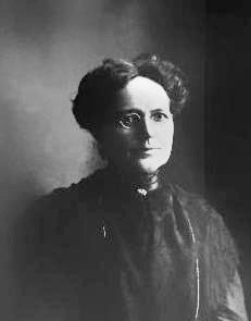 Mary Ann Pulcipher of Grand Traverse County, MI